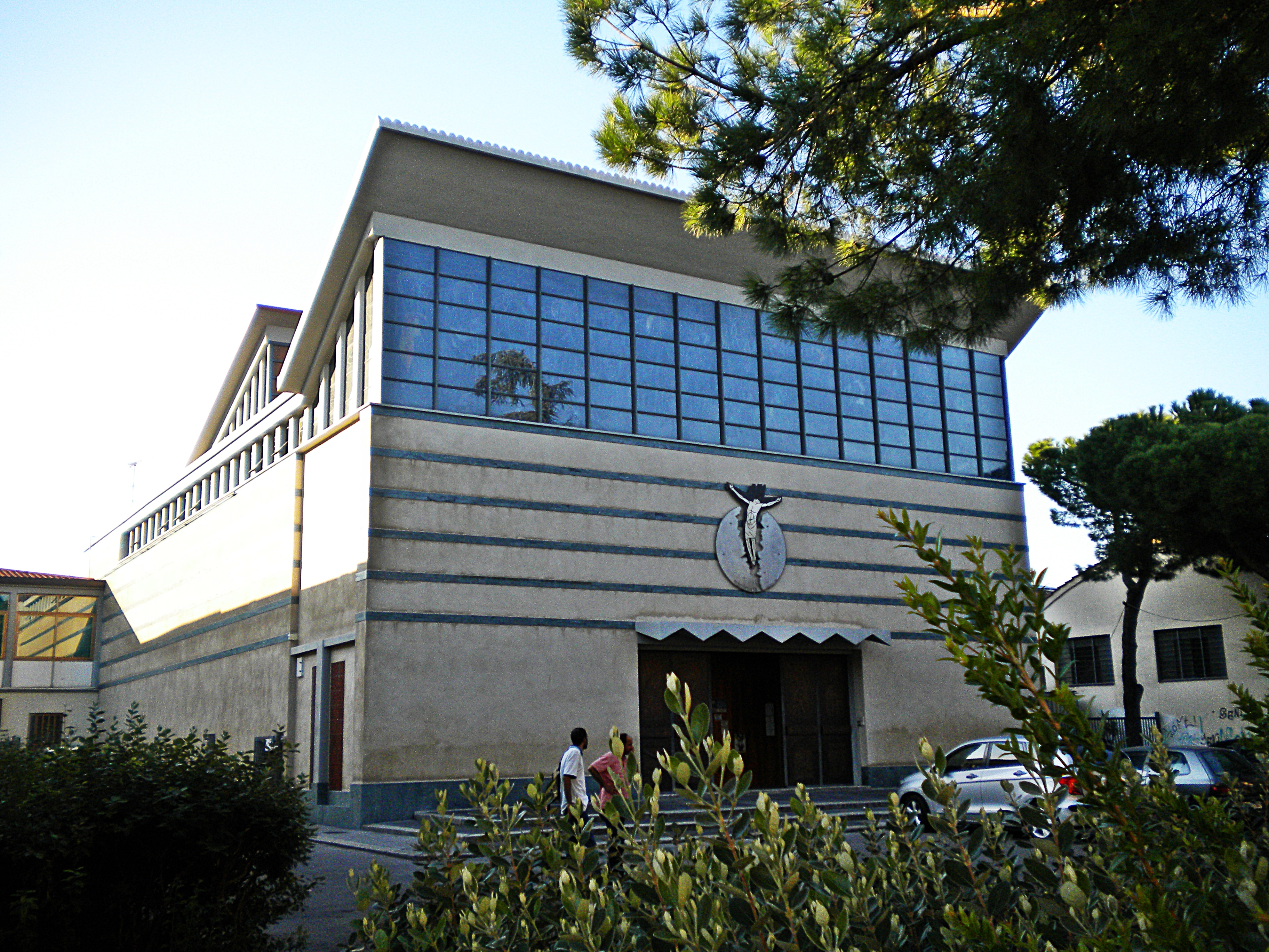 church